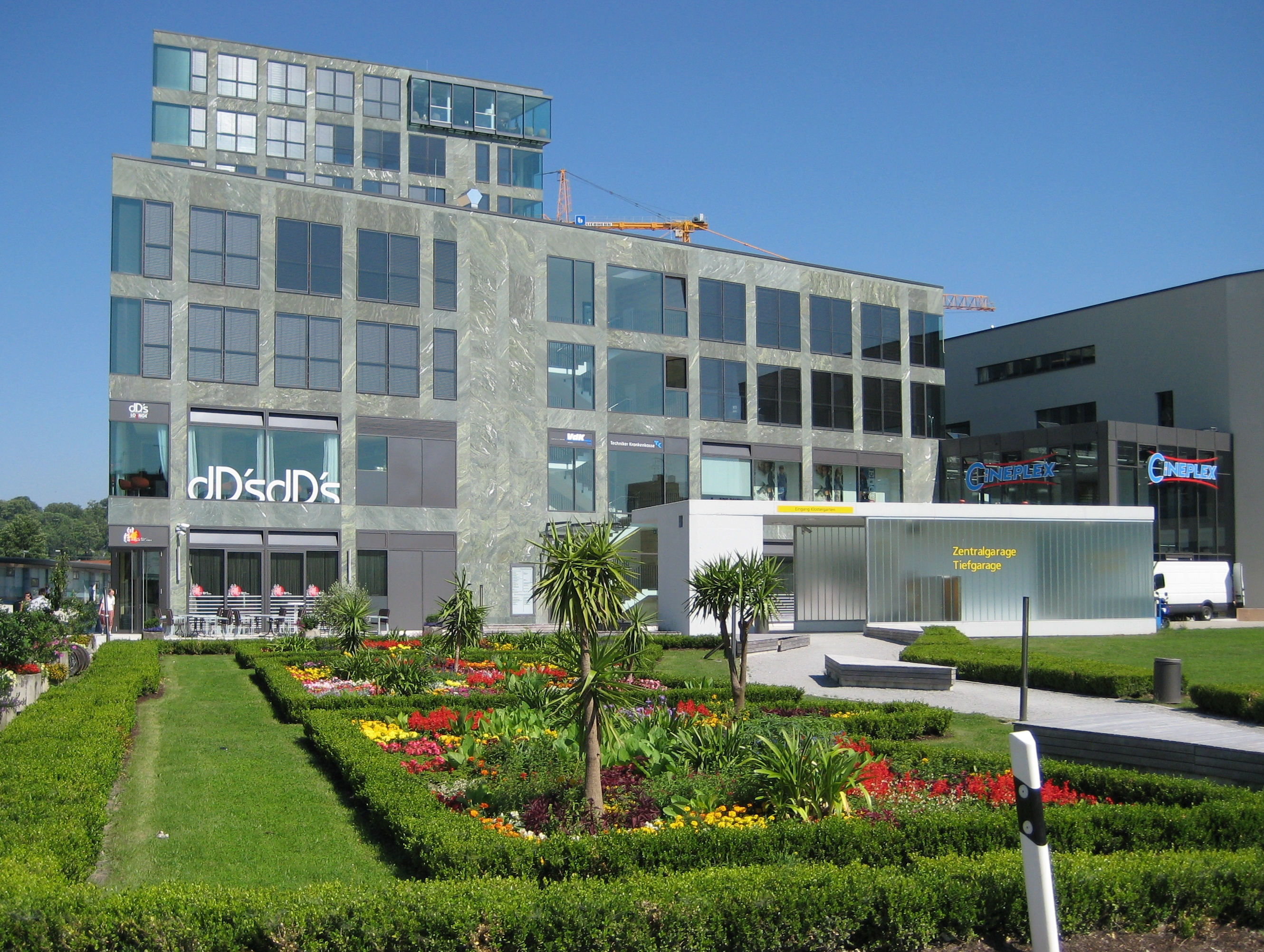 City tower, Passau